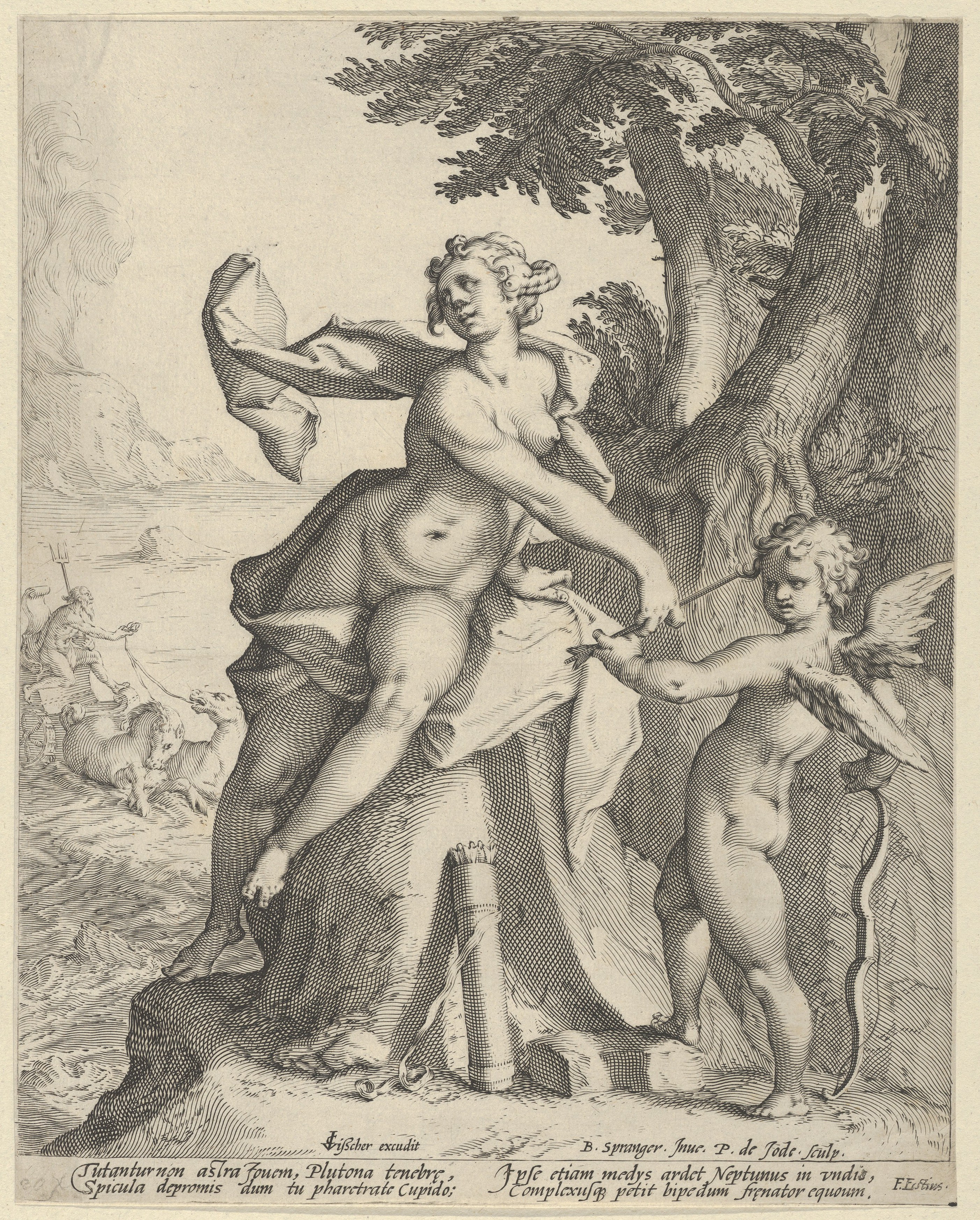 Print; Prints